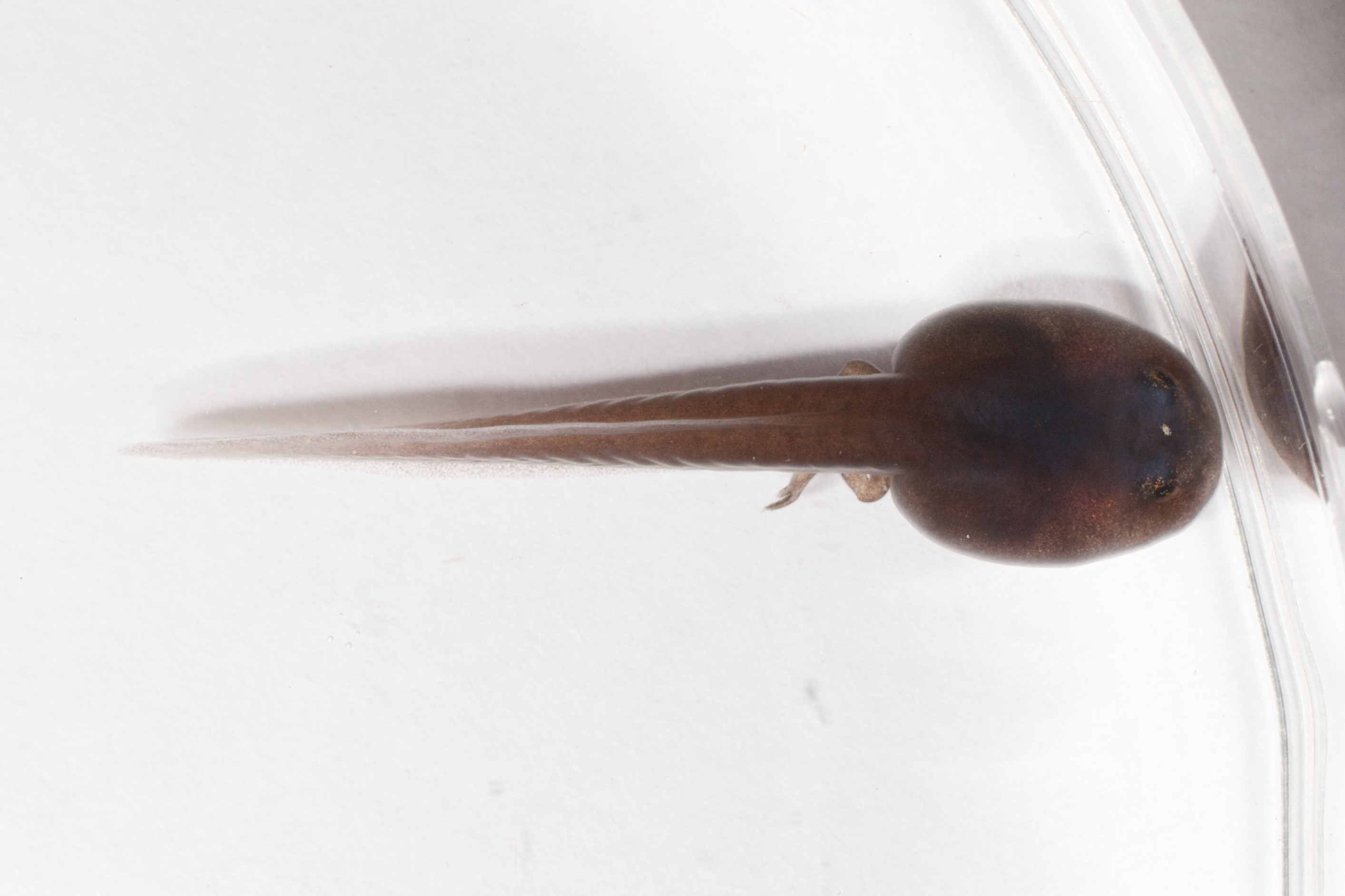 Andinobates geminisae tadpole - first ever captive bred individual at the Panama Amphibian Rescue and Conservation Project